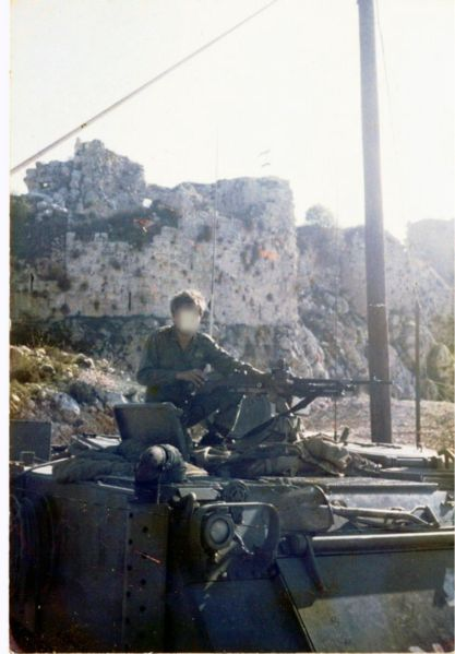 a soldier in the Beufort castle, 1987. taken by he:משתמש:אלמוג.